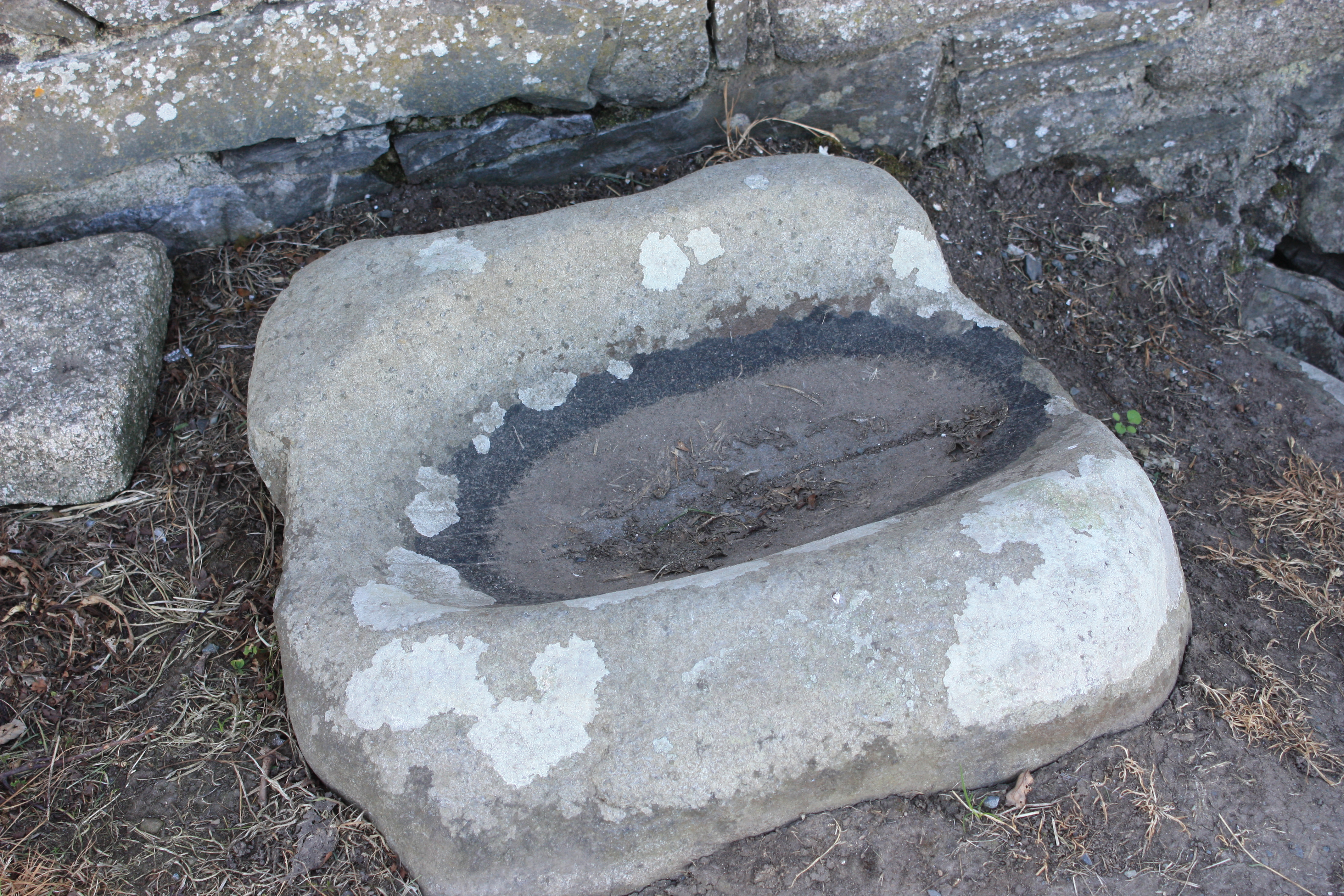 Bullaun beside Holy well at St John's Point Church, St John's Point, County Down, Northern Ireland, October 2009